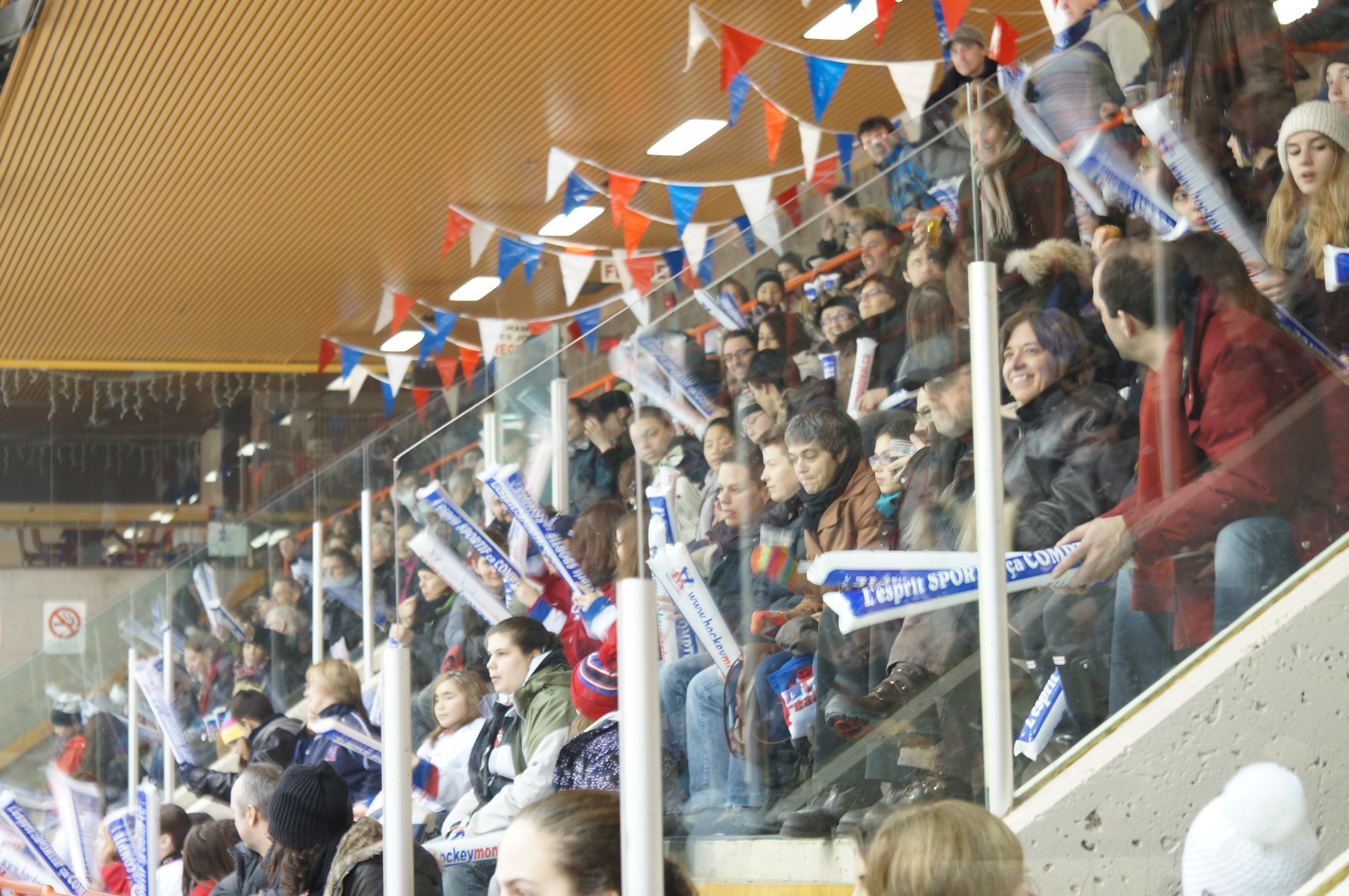 Montreal Stars supporters at Arena St-Louis-Montreal-January 21, 2012